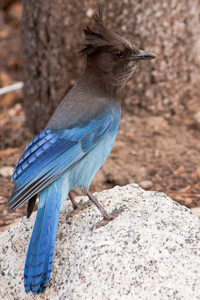 A Steller's Jay in Yosemite National Park